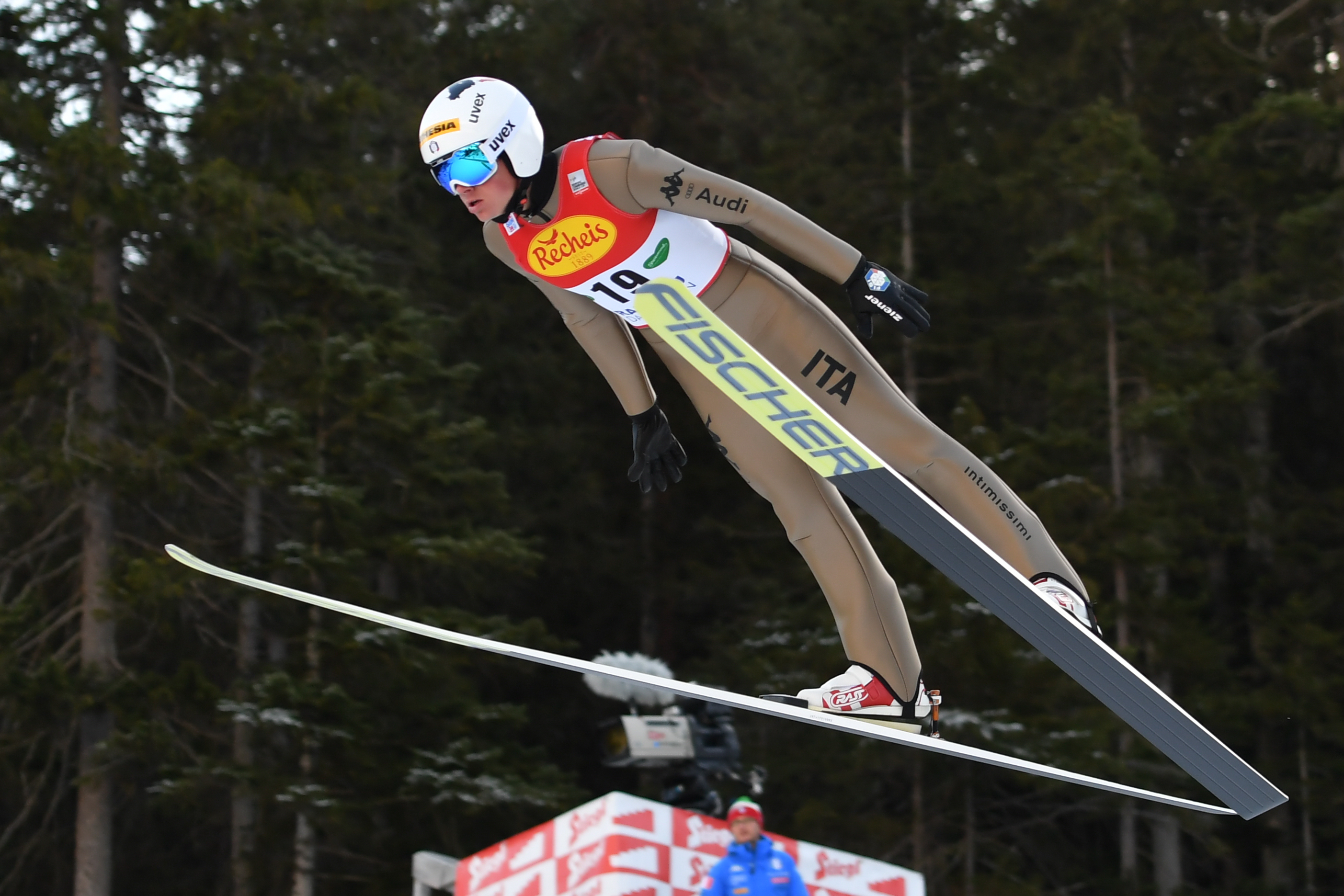 FIS World Cup Nordic Combined, Ramsau/Austria, 2016-12-16 to 2016-12-18.